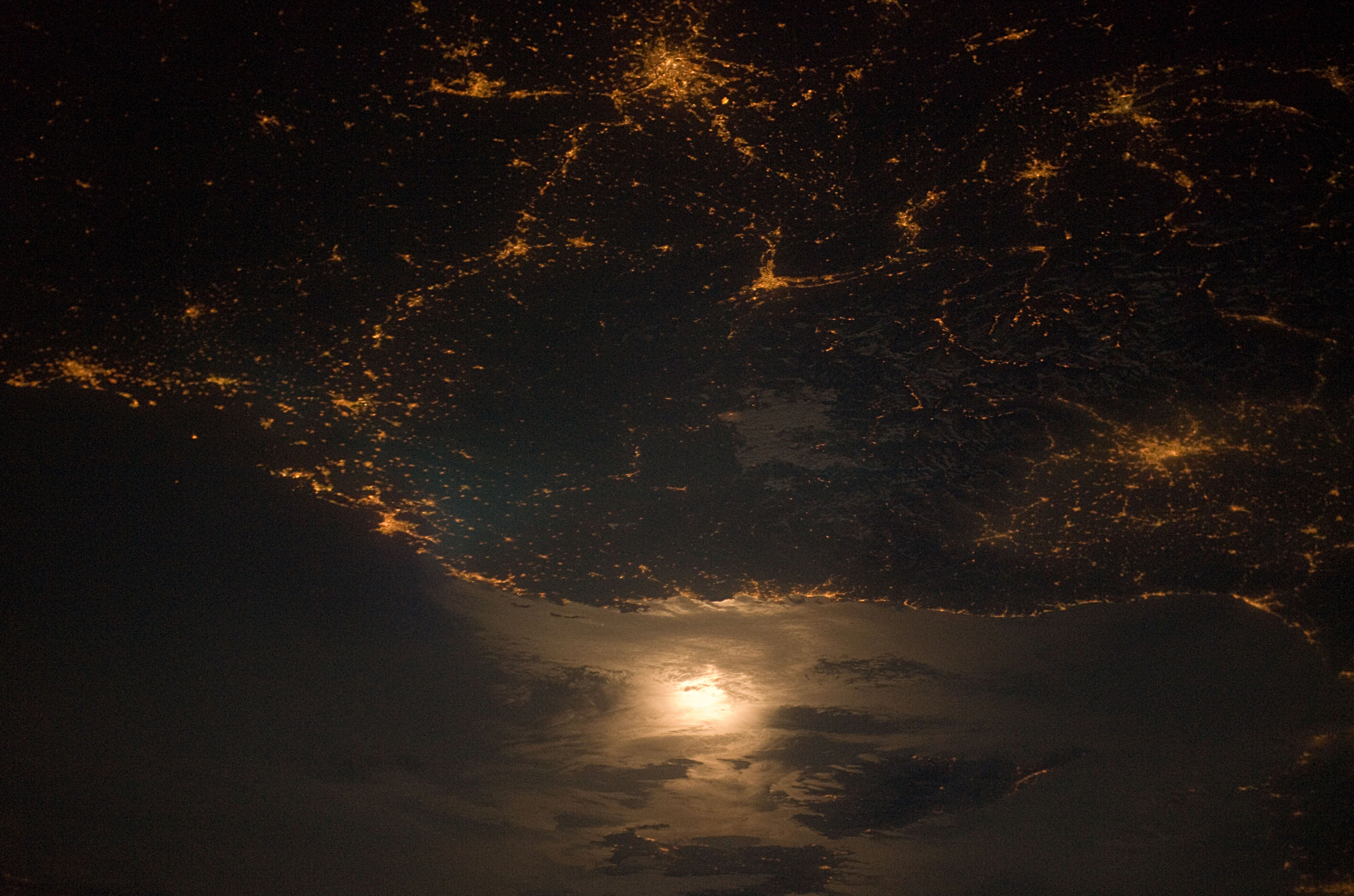 The brightly lit metropolitan areas of Torino (Italy), Lyon, and Marseille (both in France) stand out amidst numerous smaller urban areas in this dramatic astronaut photograph. The image captures the nighttime appearance of the France-Italy border. The southwestern end of the Alps Mountains separates the two countries. The island of Corsica is visible in the Ligurian Sea to the south (image top). The full moon reflects brightly on the water surface and also illuminates the tops of low patchy clouds over the border (image centre). This image was taken by an International Space Station (ISS) astronaut at approximately 11:55 p.m. local time, when the ISS was located over the France-Belgium border near Luxembourg.